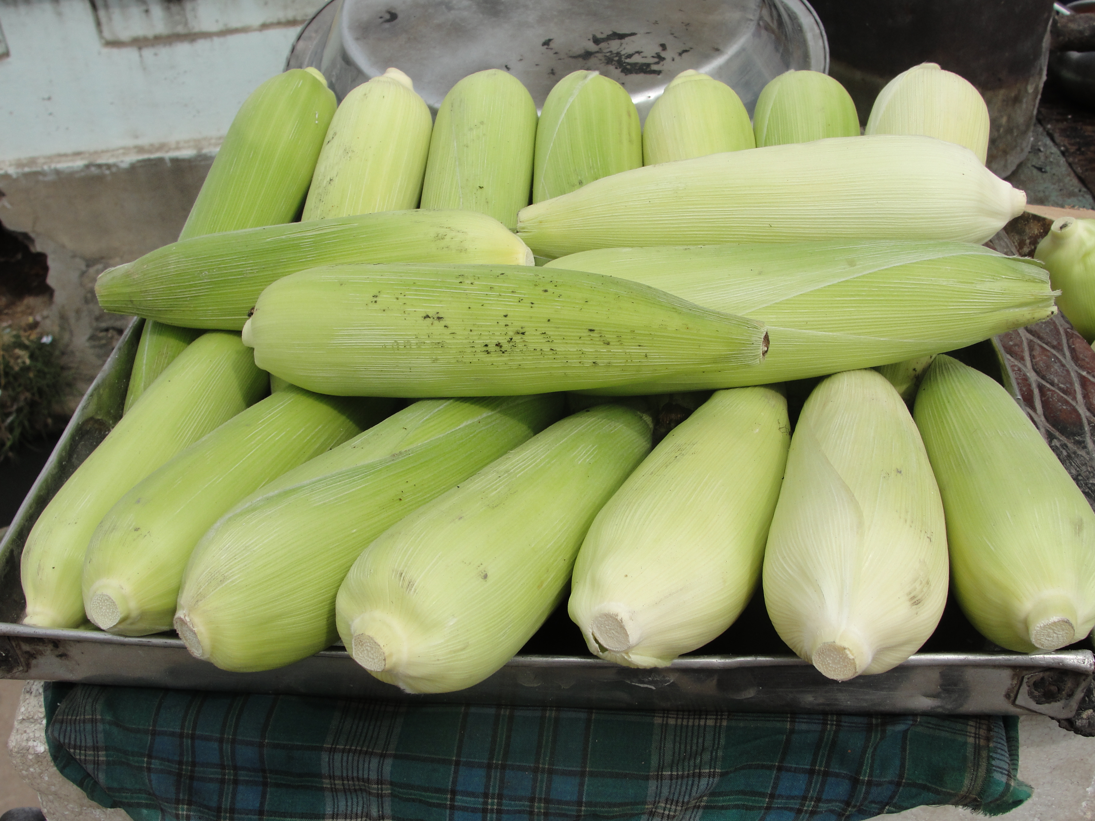 A visual treat of Maize